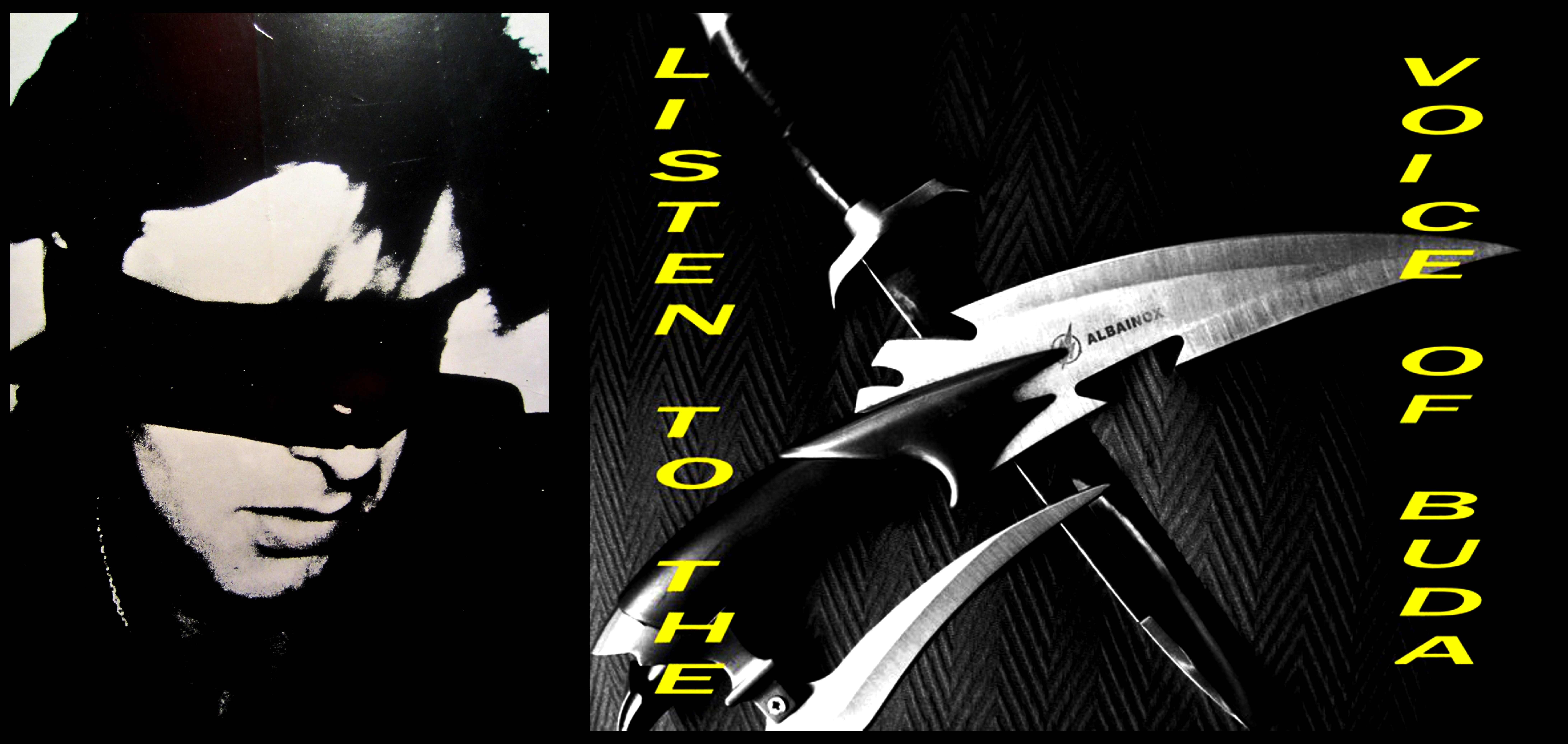 Remix between cover photo from book Blood and the artwork "Listen to the voice of Buda".